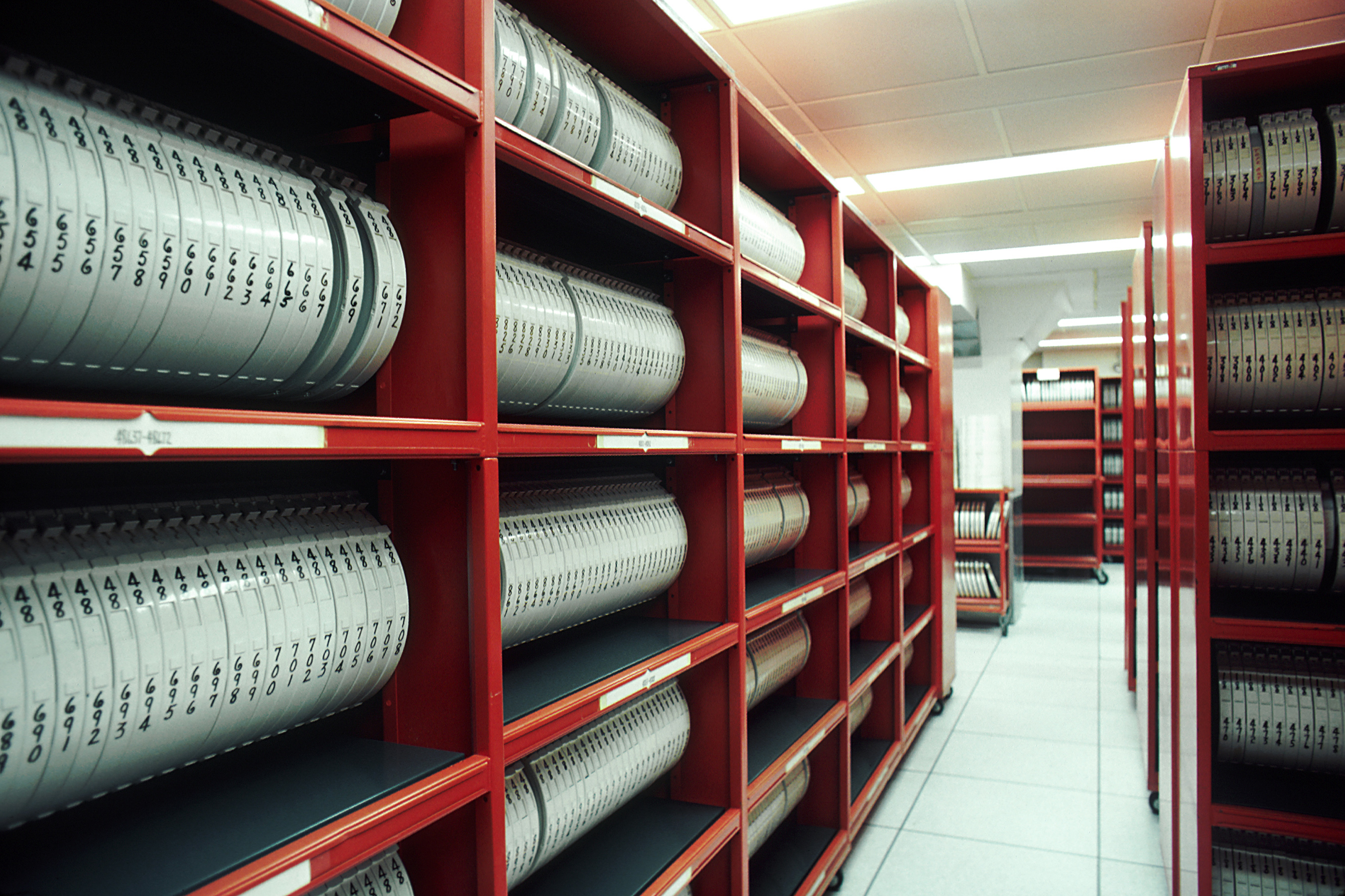 Title Computer Tapes Description A vast storeroom for computer tapes that are on multi-tiered rows shelves. Without the new technology of computers, it would be impossible to store and retrieve the vast amounts of information needed for detailed cancer research being done today. Topics/Categories Science and Technology -- Computers Type Color, Photo Source National Cancer Institute